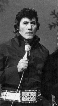 (from left) Carl Perkins, Roy Orbison, Johnny Cash and Jerry Lee Lewis from the 1977 Johnny Cash Christmas Special television program.